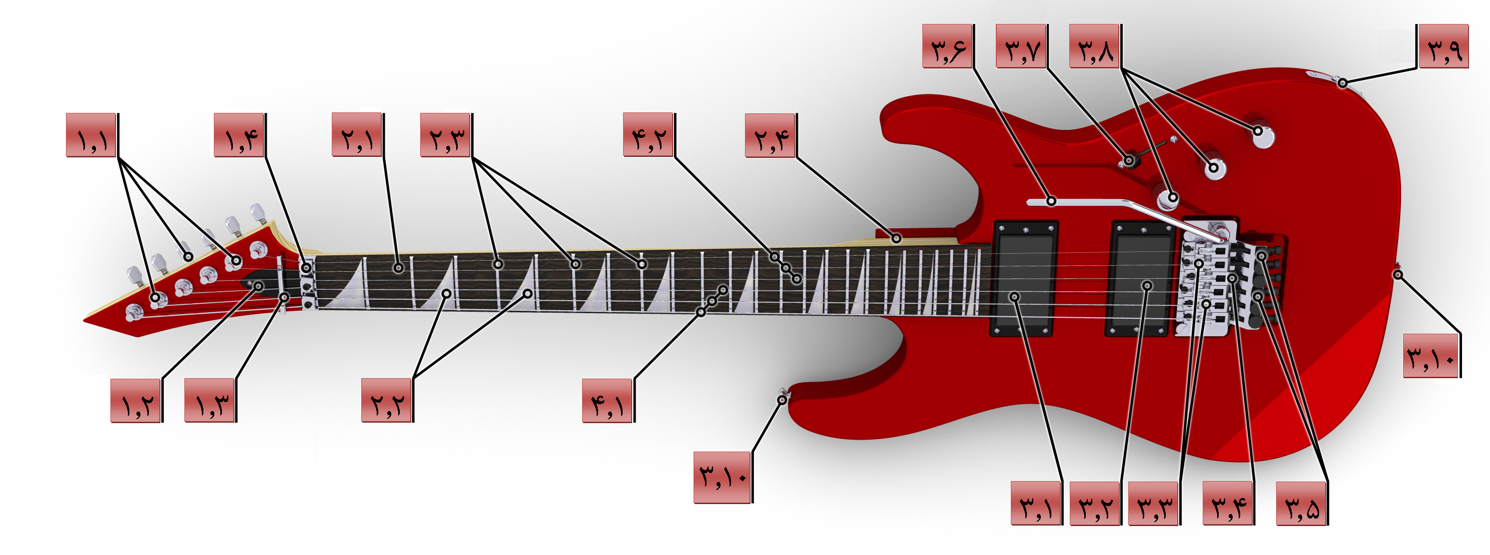 Electric Guitar based on ESP KH model.